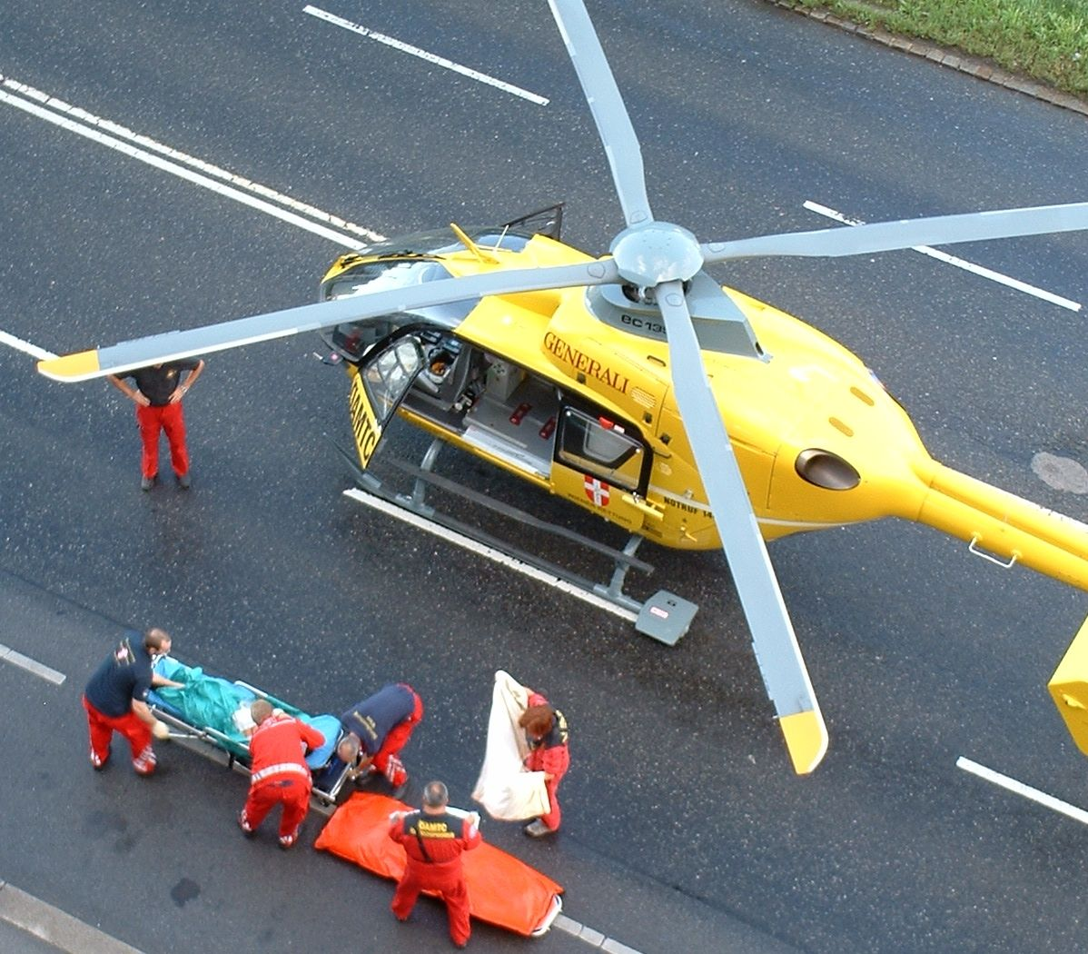 An ÖAMTC helicopter on a highway